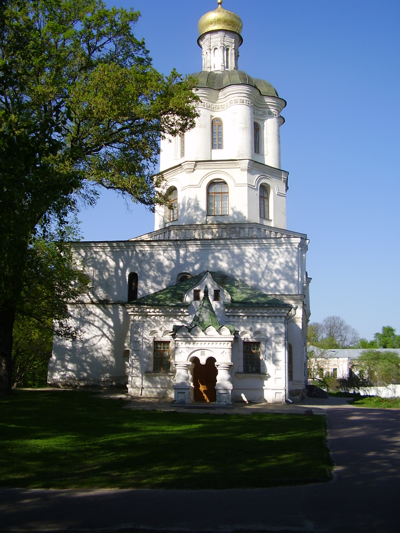 Collegium at dytynets in Chernihiv, view 2